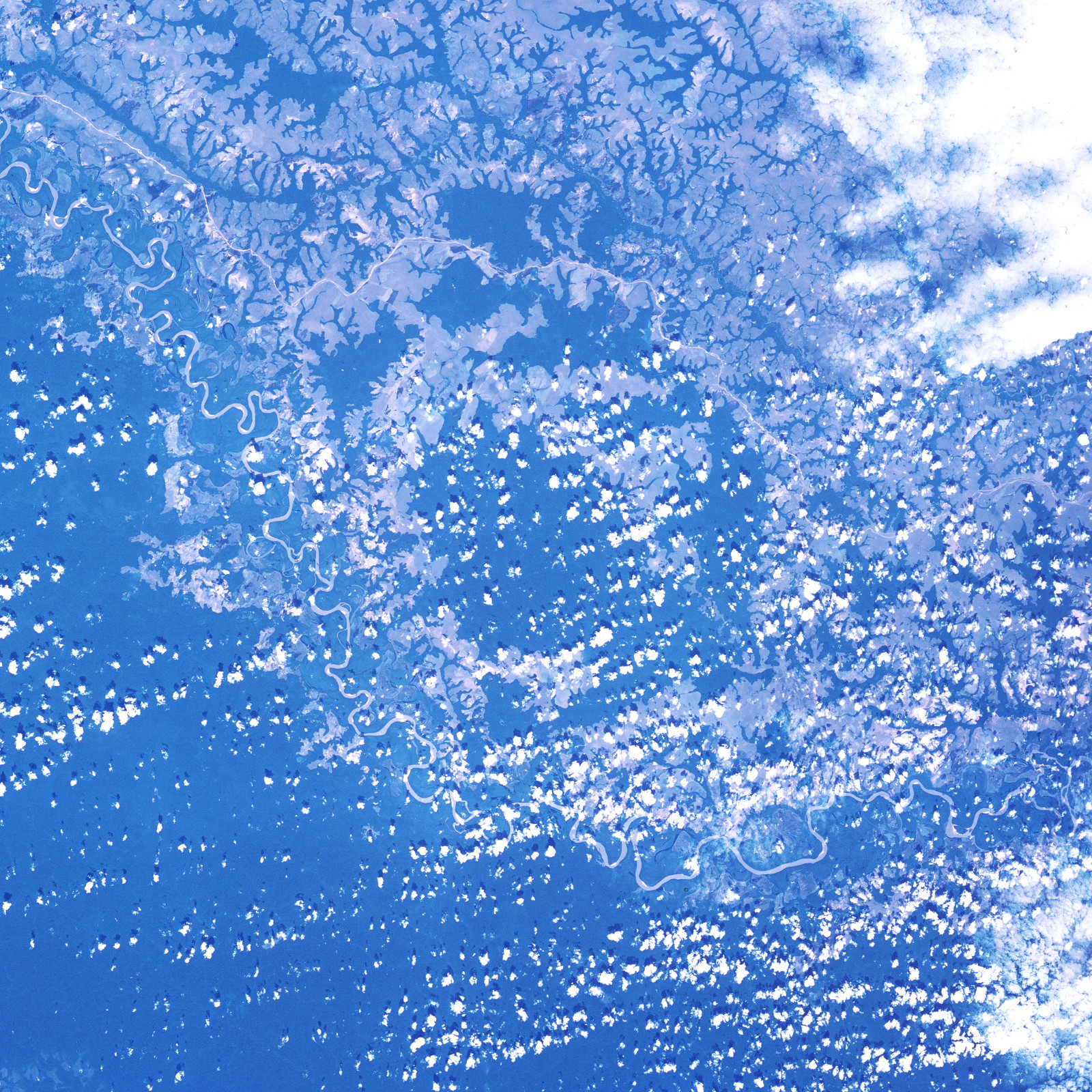 Skylab S-190 B Earth Terrain Camera image of Vichada Structure, Vichada Department, Colombia, South America.